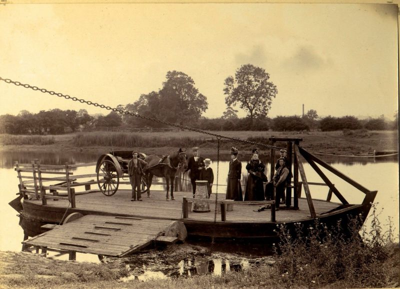 Image of Twyford Ferry, Derbyshire in 1899. Author not shown on source website or on the image itself. The source article links to ( but both this archived page and ( do not show an author.